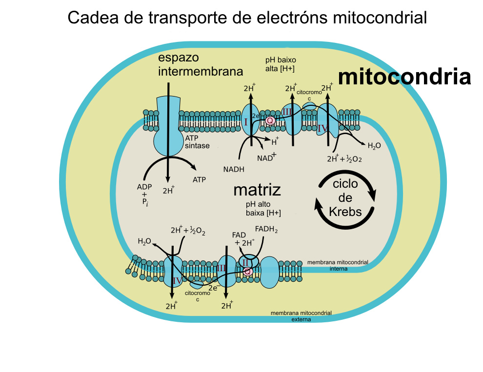 Mitochondrial electron transport chain translated to Galician